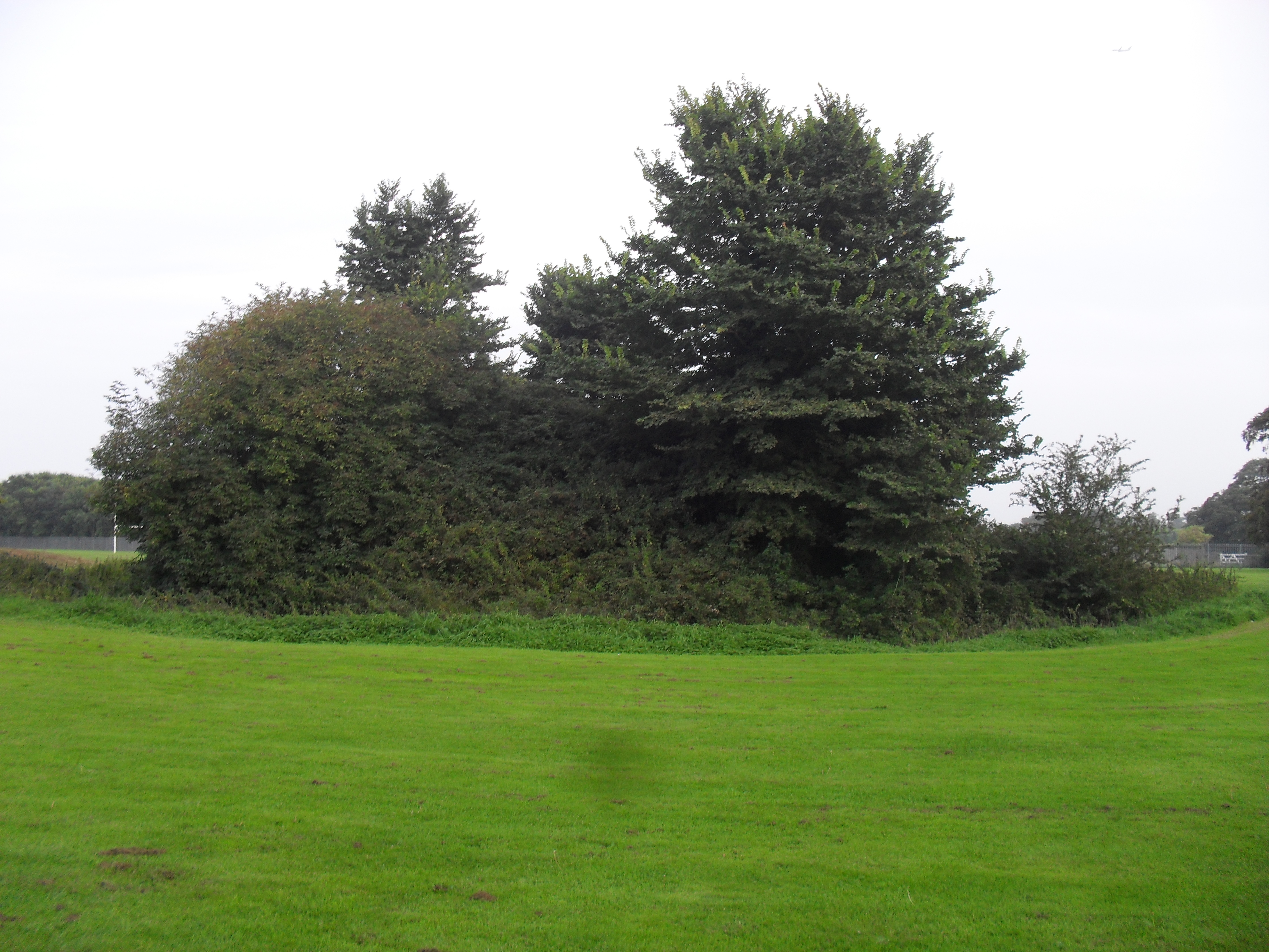 Saint Helens Castle, County Dublin